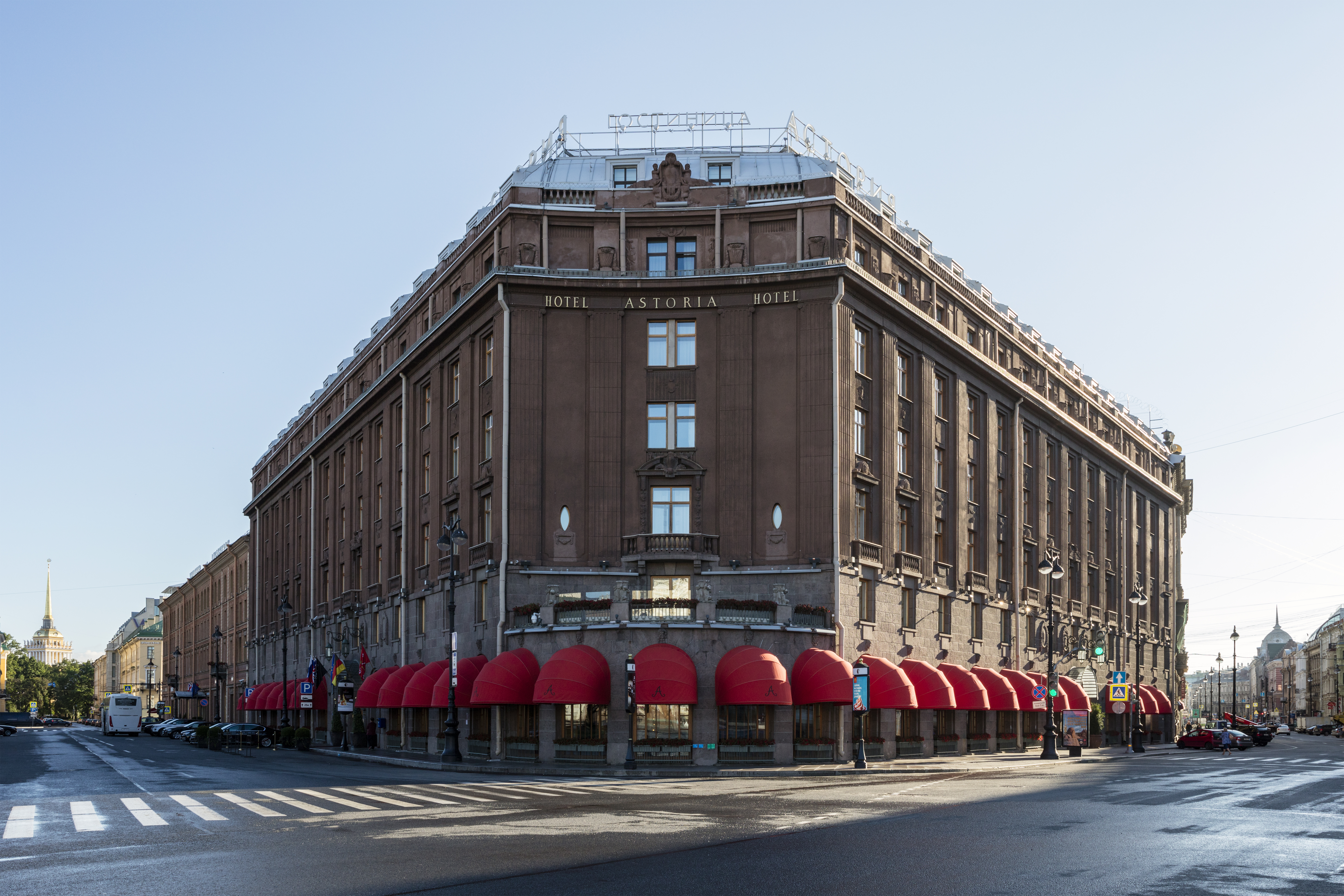 Hotel Astoria, Saint Petersburg, Russia.